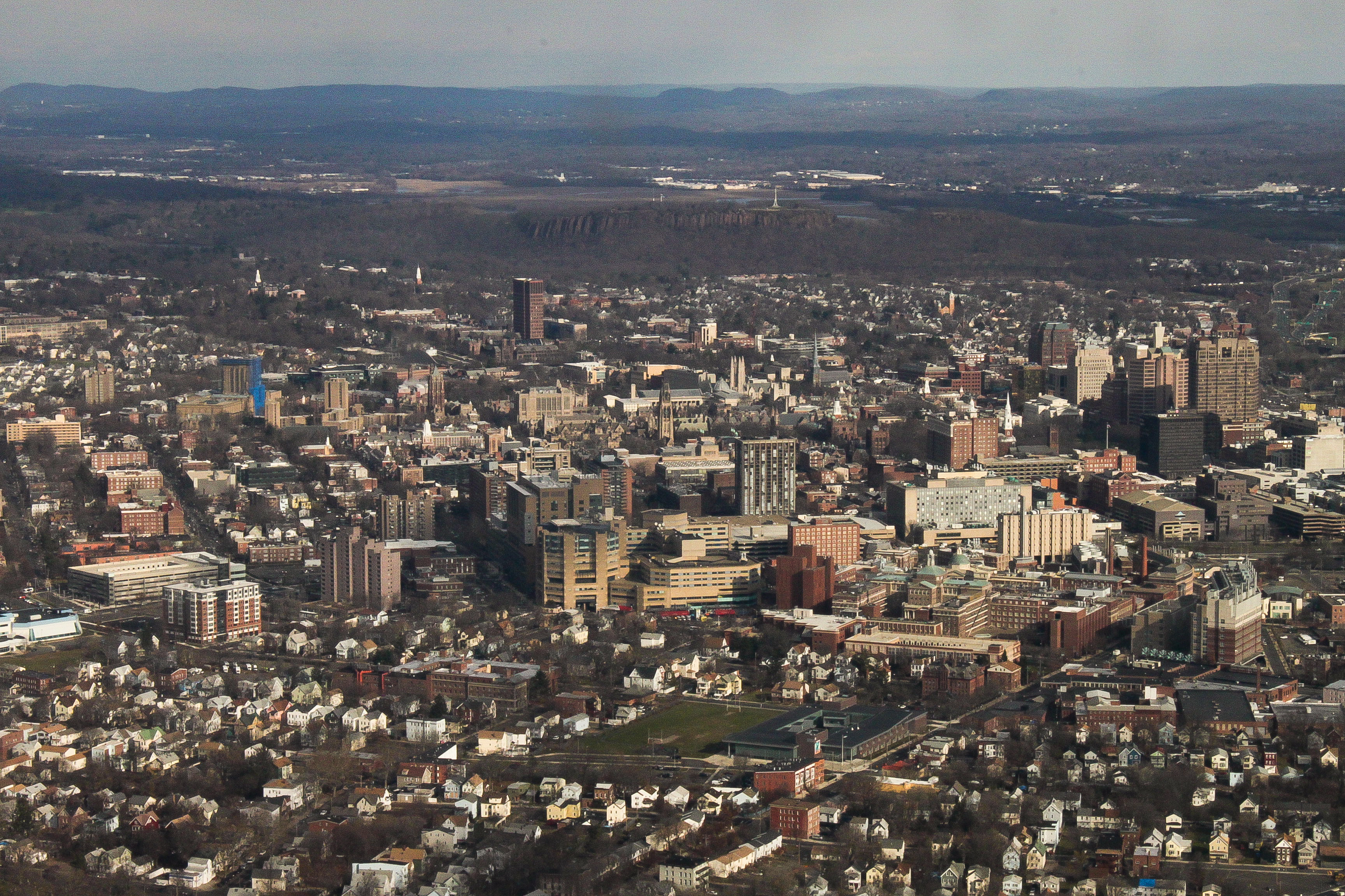 Yale University Aerial View New Haven